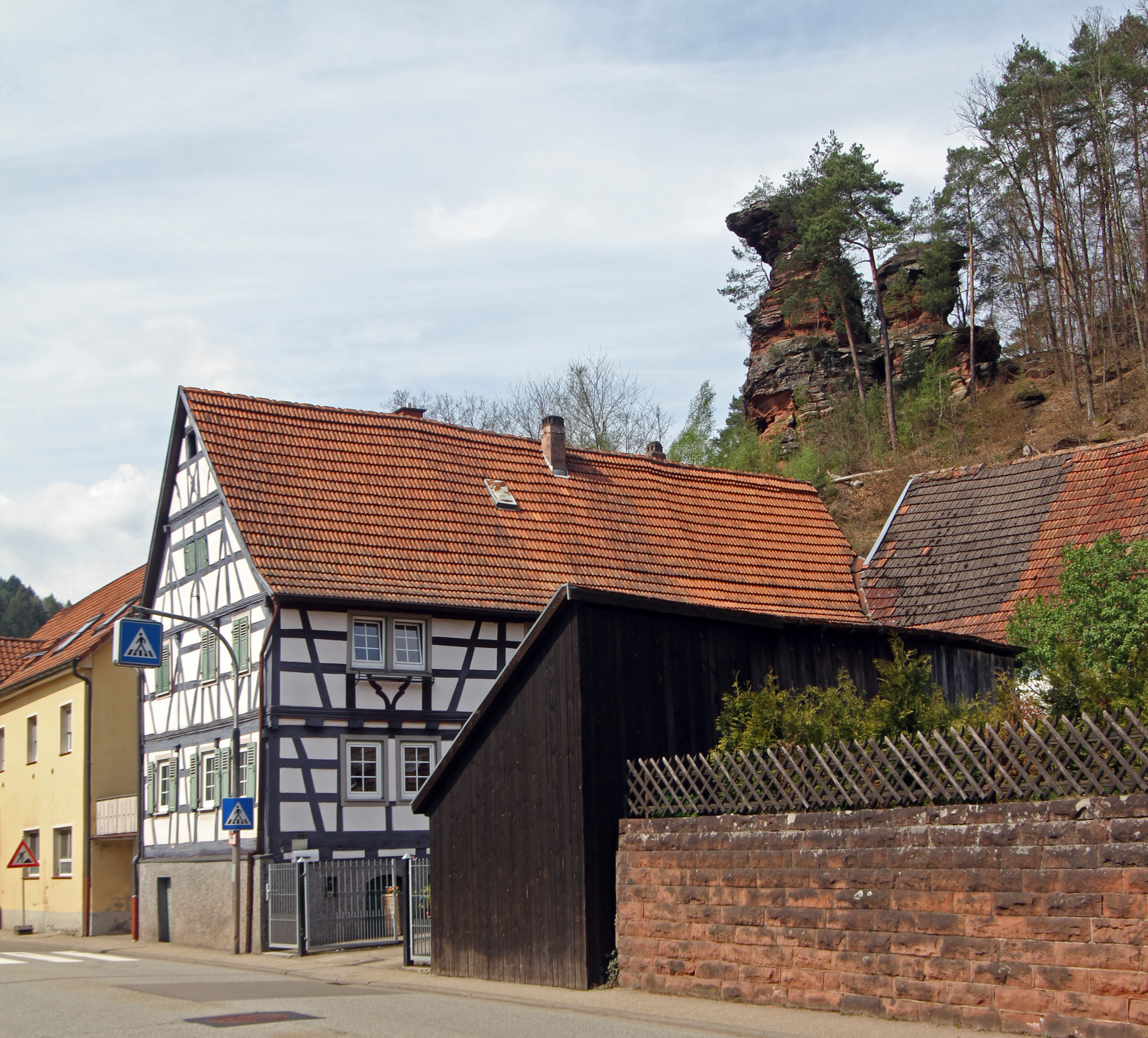 Cultural heritage monument in Hinterweidenthal